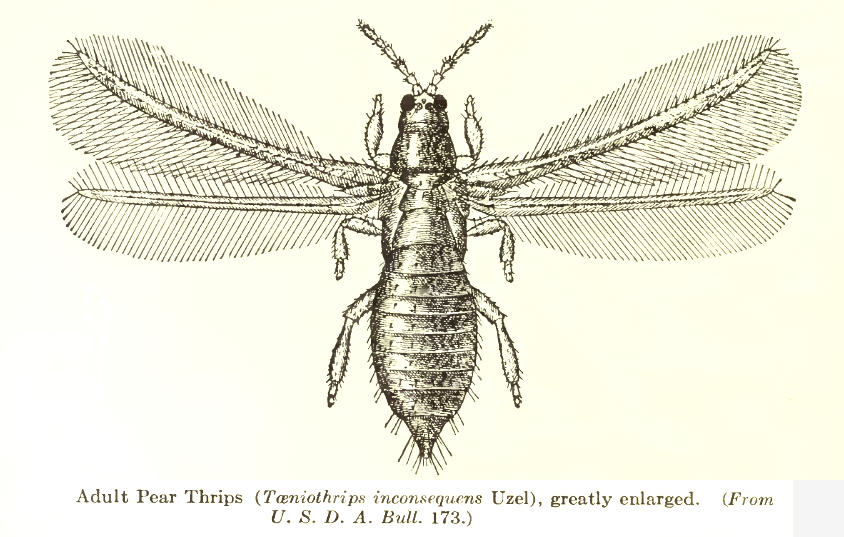 Pear Thrips, adult